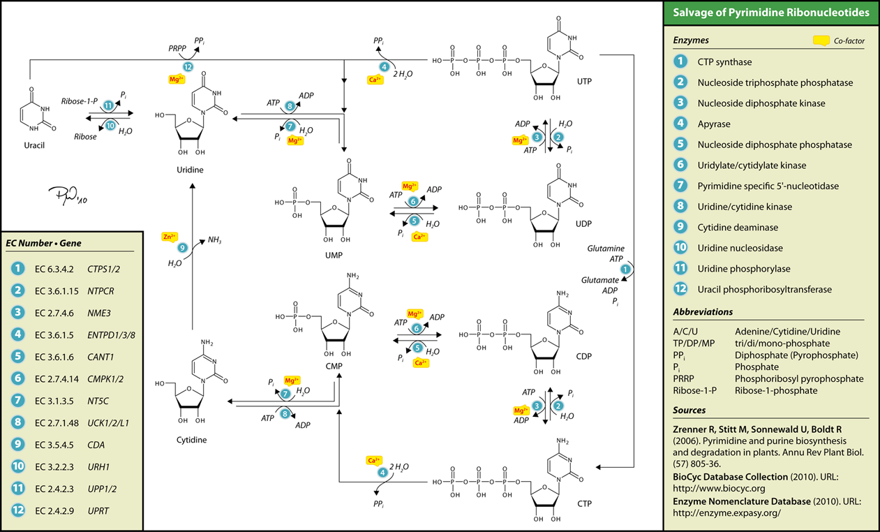 Salvage of pyrimidine ribonucleotides (uridine and cytidine). The salvage of the deoxypyrimidine ribonucleotide thymidine is not shown. Some enzymatic reaction can be kingdom- or species-/cell-specific.